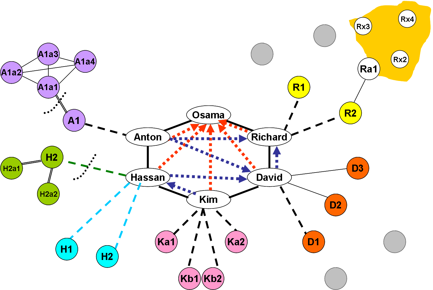 Core, infrastructure, operational groups, support net from al-Qaeda style cell system